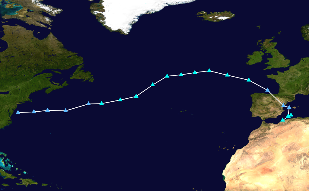 Track map of Storm Gloria of the 2019-20 European windstorm season. The points show the location of the storm at 6-hour intervals. The colour represents the storm's maximum sustained wind speeds as classified in the Saffir–Simpson scale (see below), and the shape of the data points represent the nature of the storm, according to the legend below. Saffir–Simpson scale Tropical depression≤38 mph≤62 km/h Category 3111–129 mph178–208 km/h Tropical storm39–73 mph63–118 km/h Category 4130–156 mph209–251 km/h Category 174–95 mph119–153 km/h Category 5≥157 mph≥252 km/h Category 296–110 mph154–177 km/h Unknown Storm type Tropical cyclone Subtropical cyclone Extratropical cyclone / Remnant low / Tropical disturbance / Monsoon depression